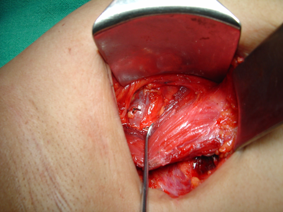 The retracted pectoralis minor showing the axillary clearance of the level-III group of axillary lymph nodes.